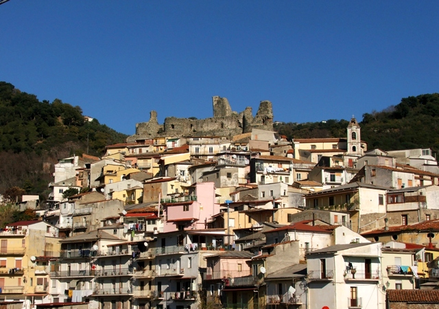 From , auth. Francesco Cataudo